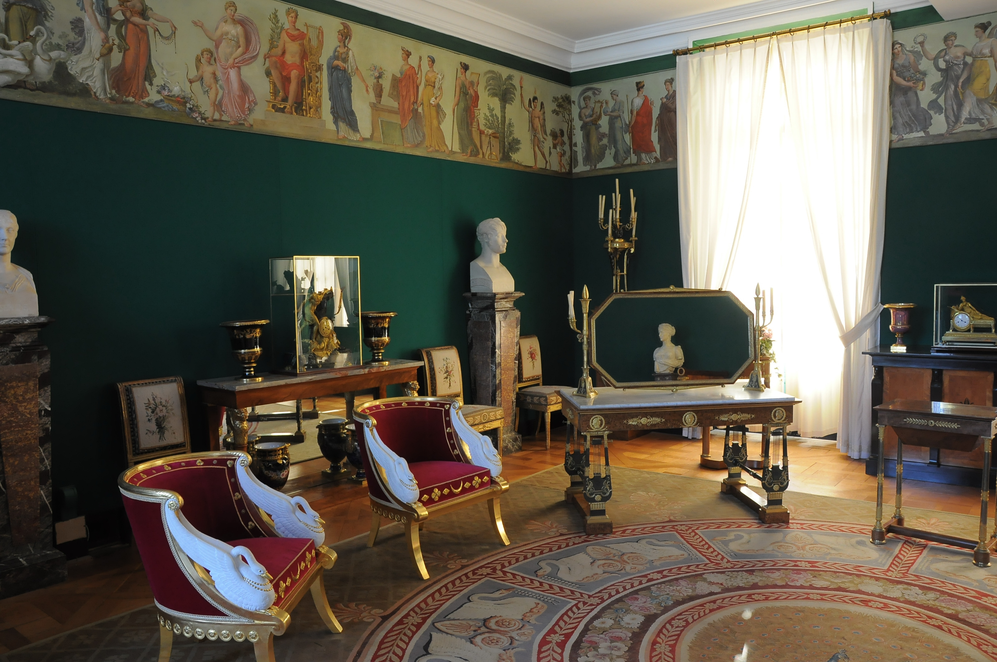 The apartment of empress Joséphine in the Château de Malmaison in Rueil-Malmaison, France. Installed in 1800 in the north part of the Château, this apartment which the consular couple shared during several years stayed in the Joséphine's exclusive usage after 1803. The anteroom was very simply furnished.